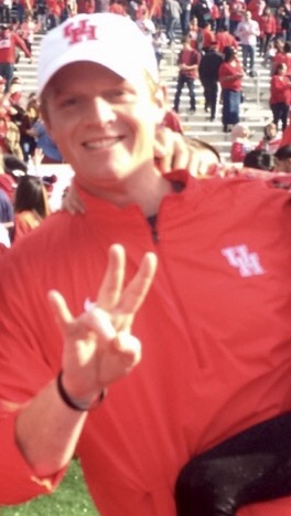 Major Applewhite following win over Temple Owls at 2015 American Athletic Conference Championship game